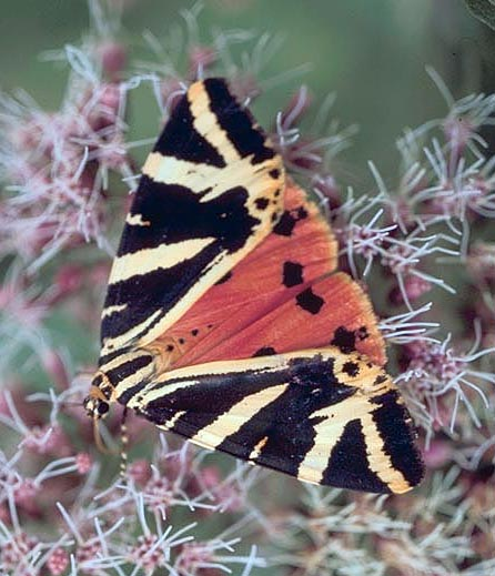 A Jersey tiger moth, Callimorpha quadripunctaria, previously Euplagia quadripunctaria, a rare moth, though recently somewhat more plentiful in the Siebengebirge of western Germany